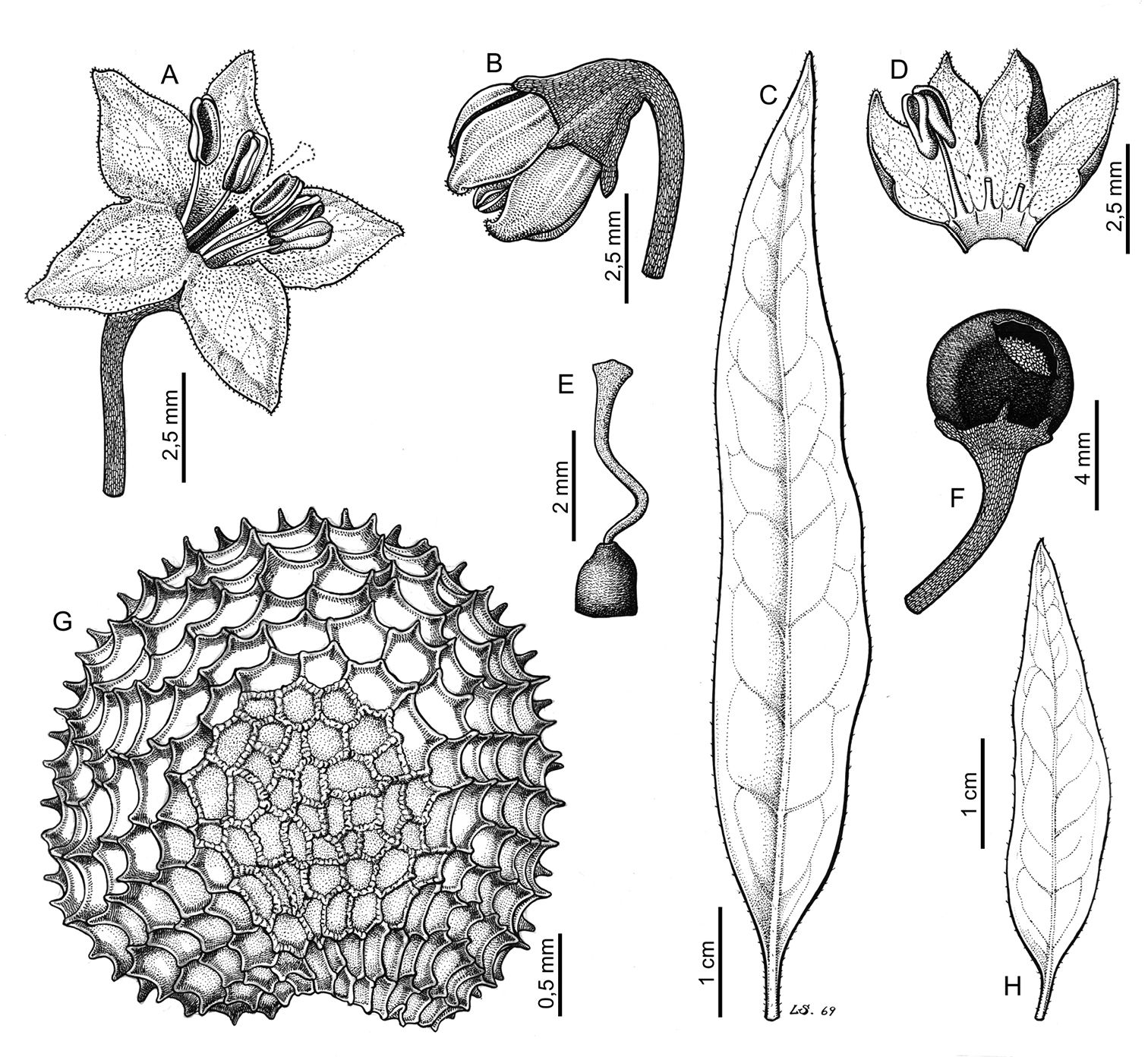 Capsicum mirabile. A flower, B flower bud C, H leaf D open corolla E gynoecium F fruit G seed.